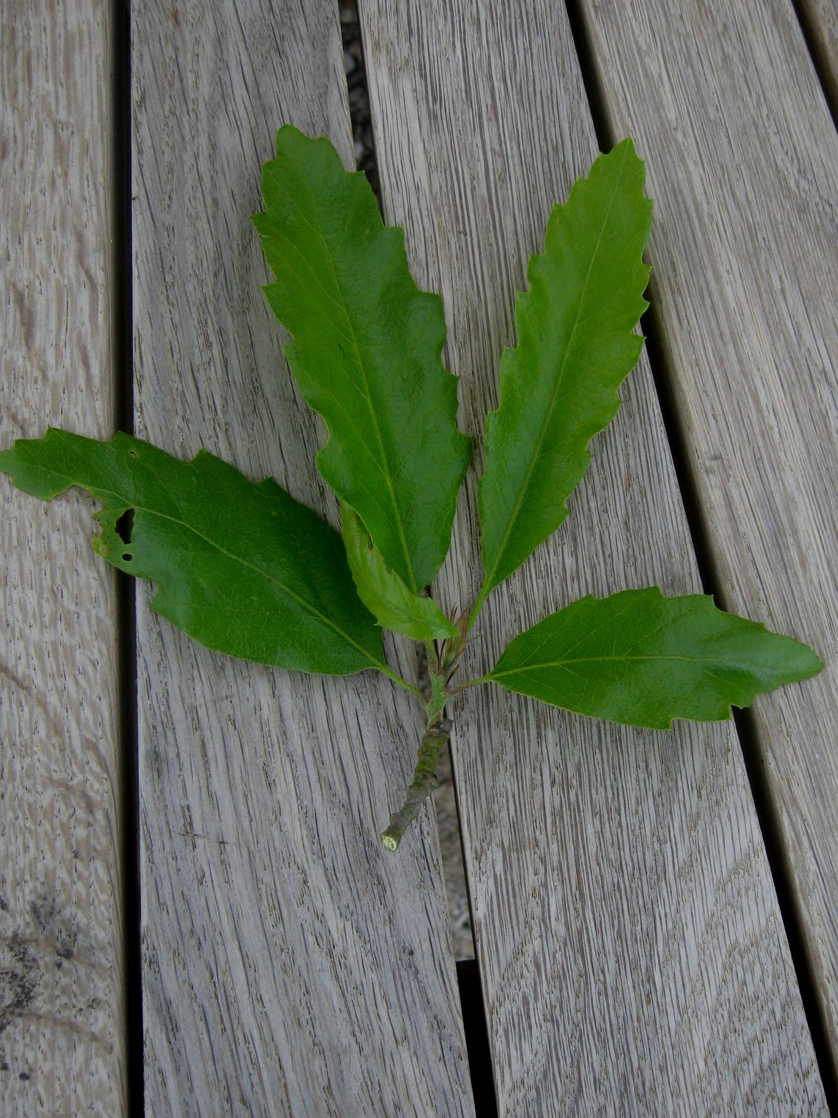 Photo of Quercus castaneifolia leaves